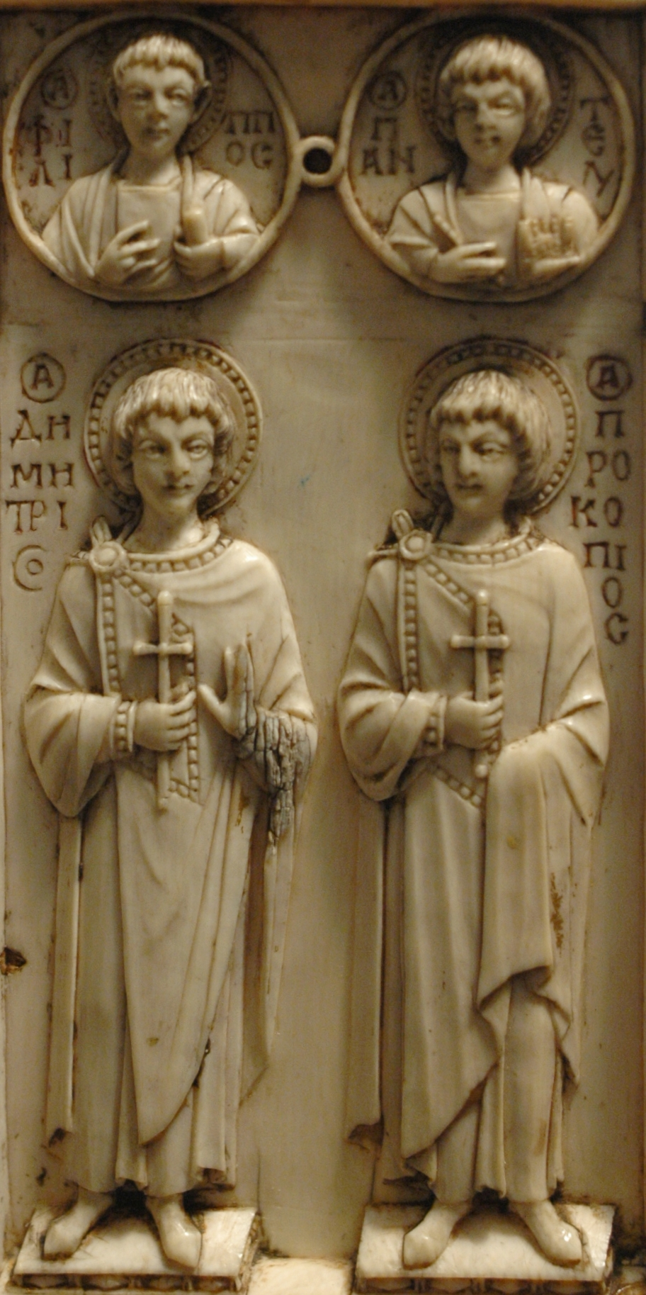 Left to right: St. Demetrius and St. Procopius. In the roundels, St. Philip the Apostle and St Pantaleimon. Harbaville Triptych: close-up on the bottom panel of the right leaf, recto.